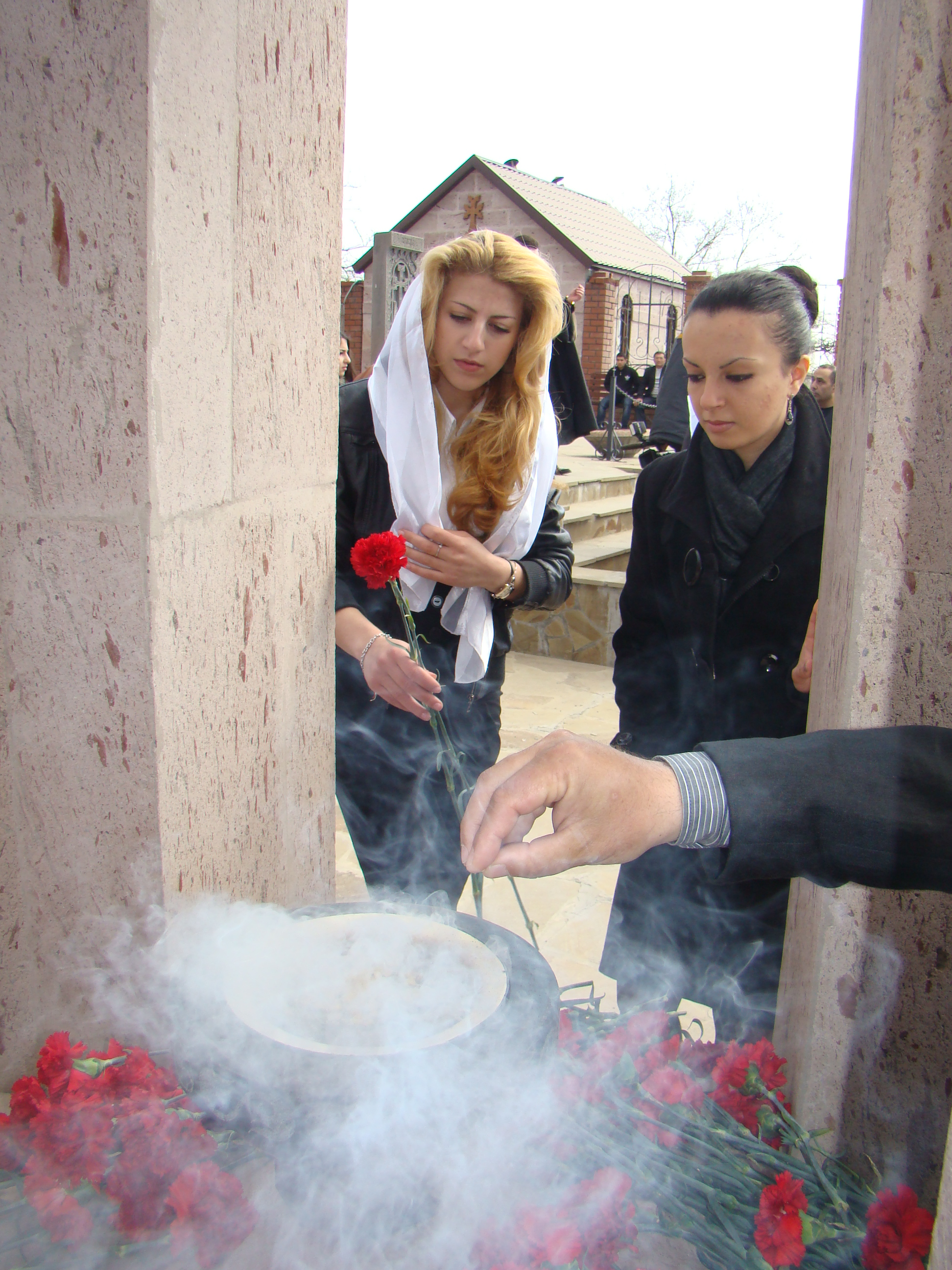 Armenian Genocide Day in Sourb Gevorg armenian Church